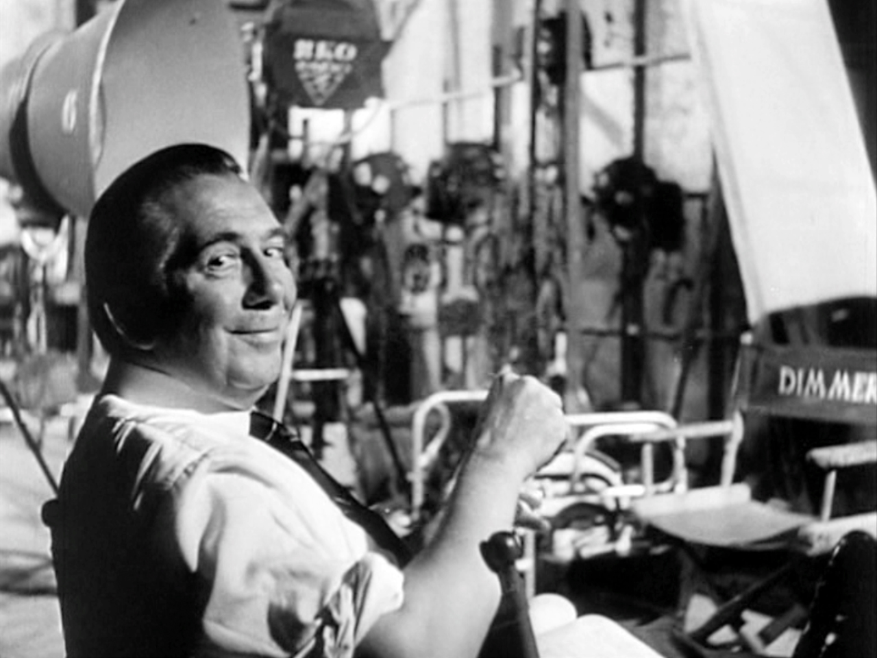 Screenshot of Ray Collins (actor) from the Citizen Kane trailer